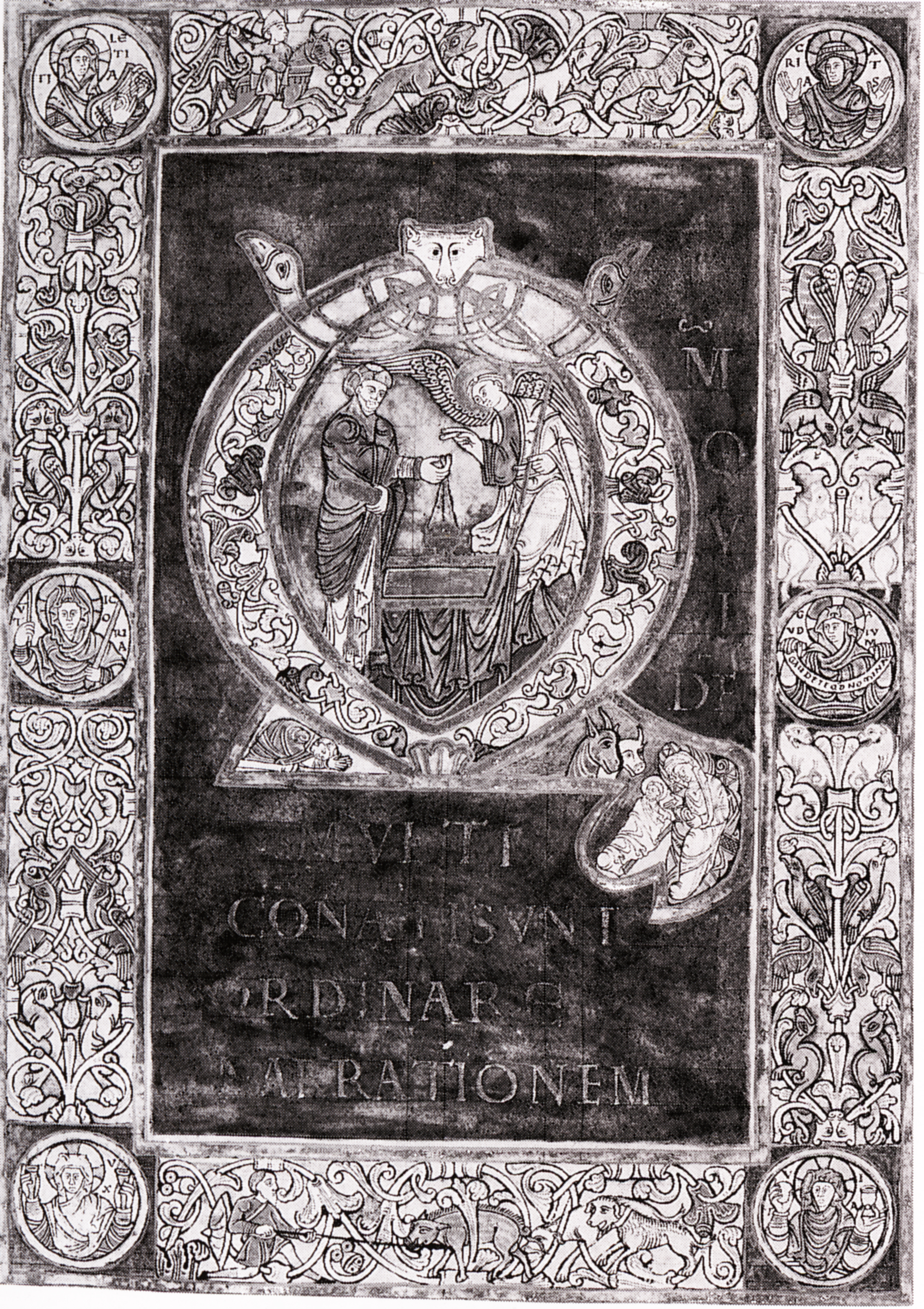 St Otbert, abbot of St Bertin Abbey à Saint-Omer, c. 968-1007, adoring Christ at the Nativity, from a 10th century manuscript